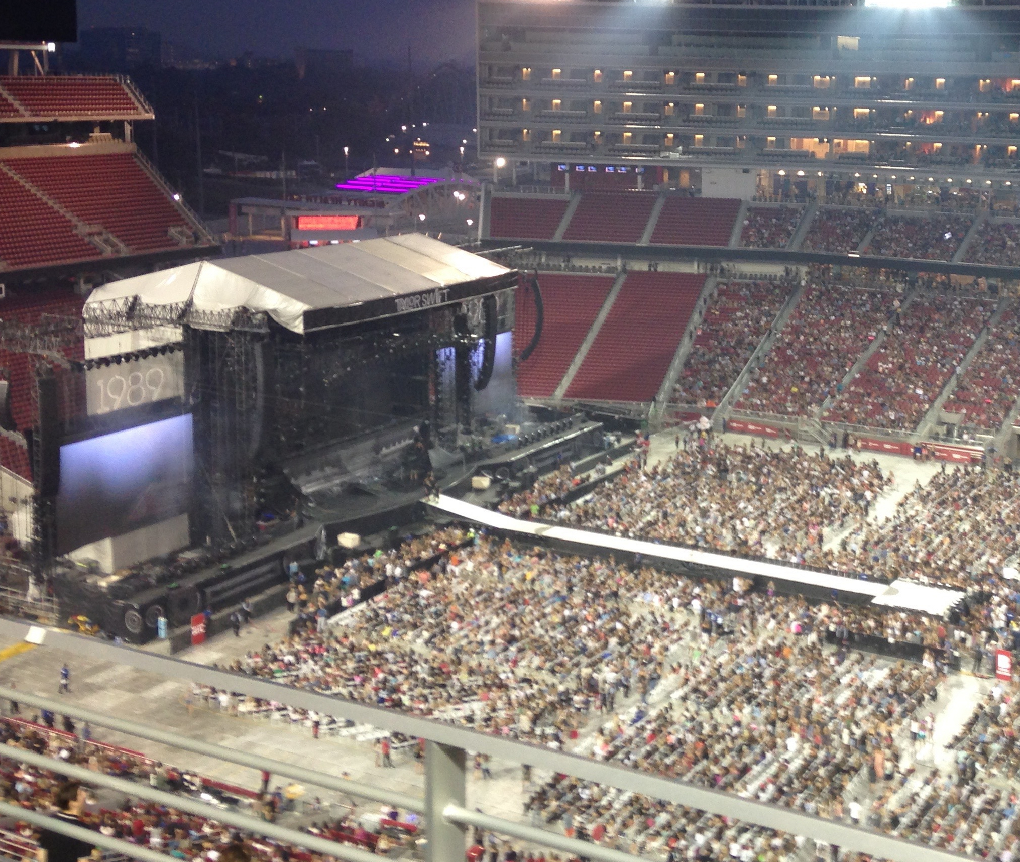 Stage at LEVIS' Stadium, SANTA CLARA